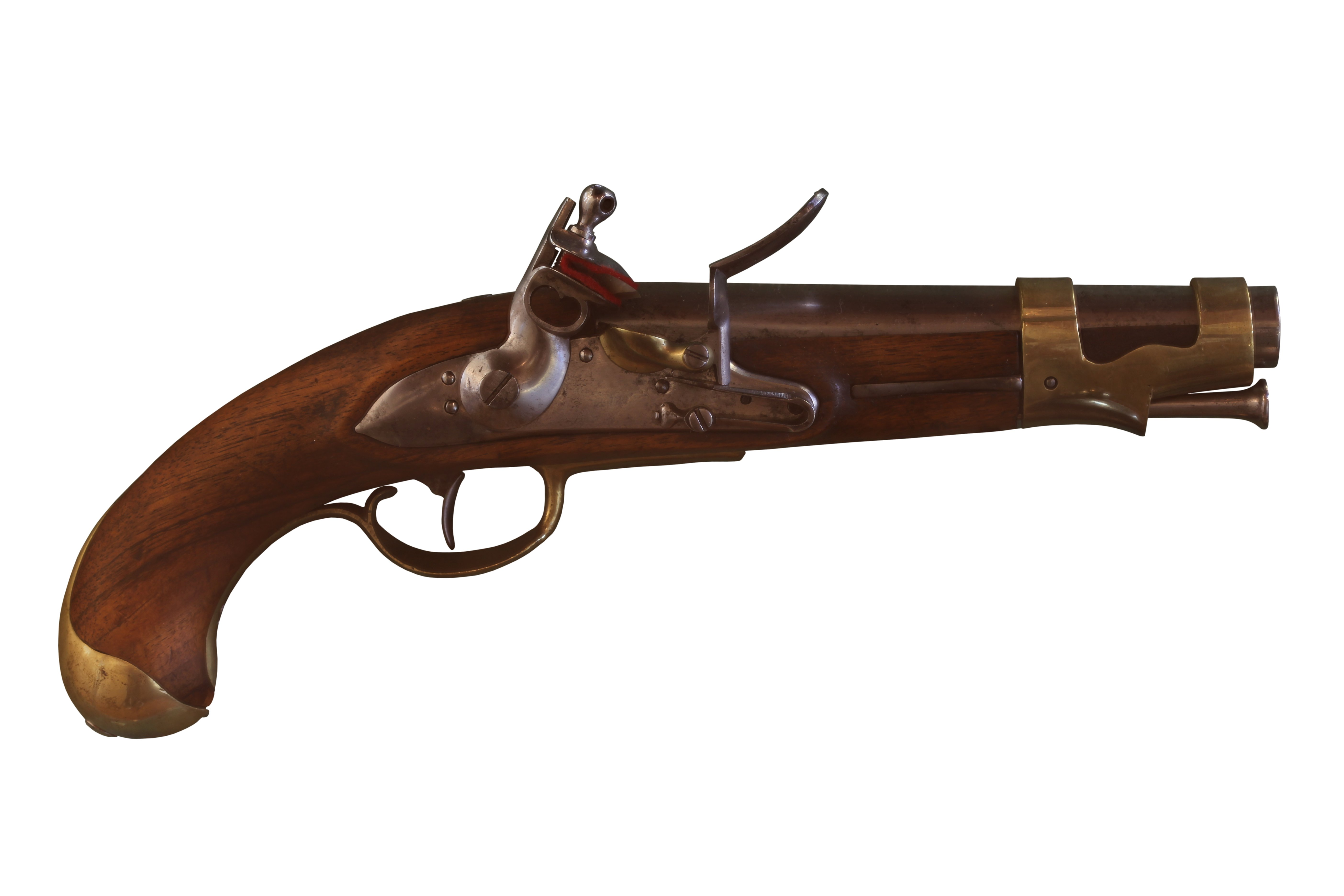 Pistolet modèle An IX, made in Liège in 1802. On display at Vevey historical museum, accession number 382.